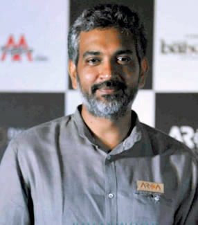 Director S. S. Rajamouli at the theatrical trailer launch of the film Baahubali